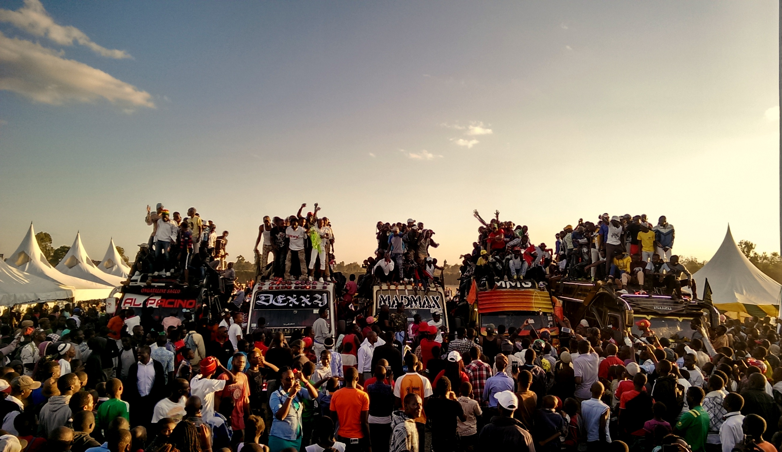 Representative of Kenya's public transport system rich in art. This is an image with the theme "Play" from: Kenya